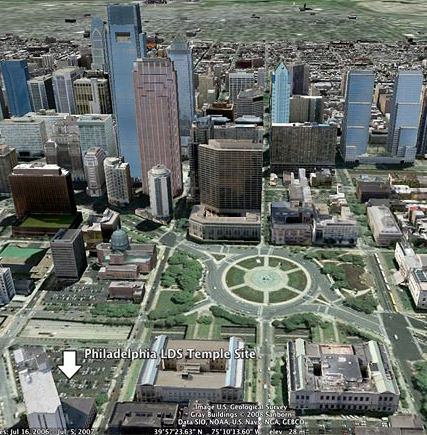 Planned location of Philadelphia Pennsylvania Temple of The Church of Jesus Christ of Latter-day Saints, as found on US Geological Survey map